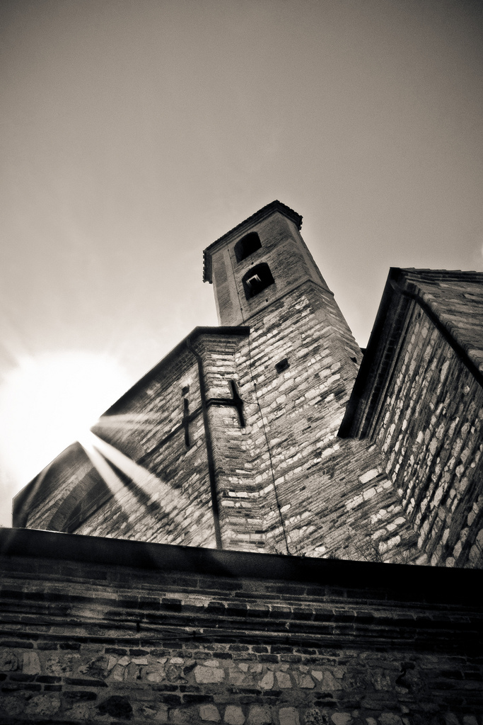 Bell Tower of San Giovanni Battista Church